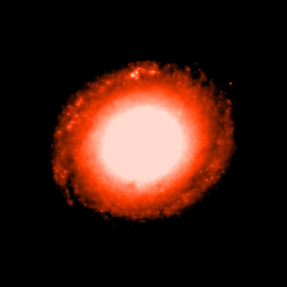 ABOUT THIS IMAGE: The deeper orange (1.6 microns) moves farther into the infrared region of the spectrum. Image taken with HST's Near Infrared Camera and Multi-Object Spectrometer (NICMOS). Object Name: NGC 1512 Image Type: Astronomical